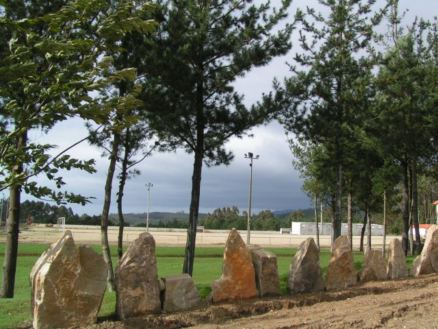 Campo de futbol de Lesende antes de arreglar.